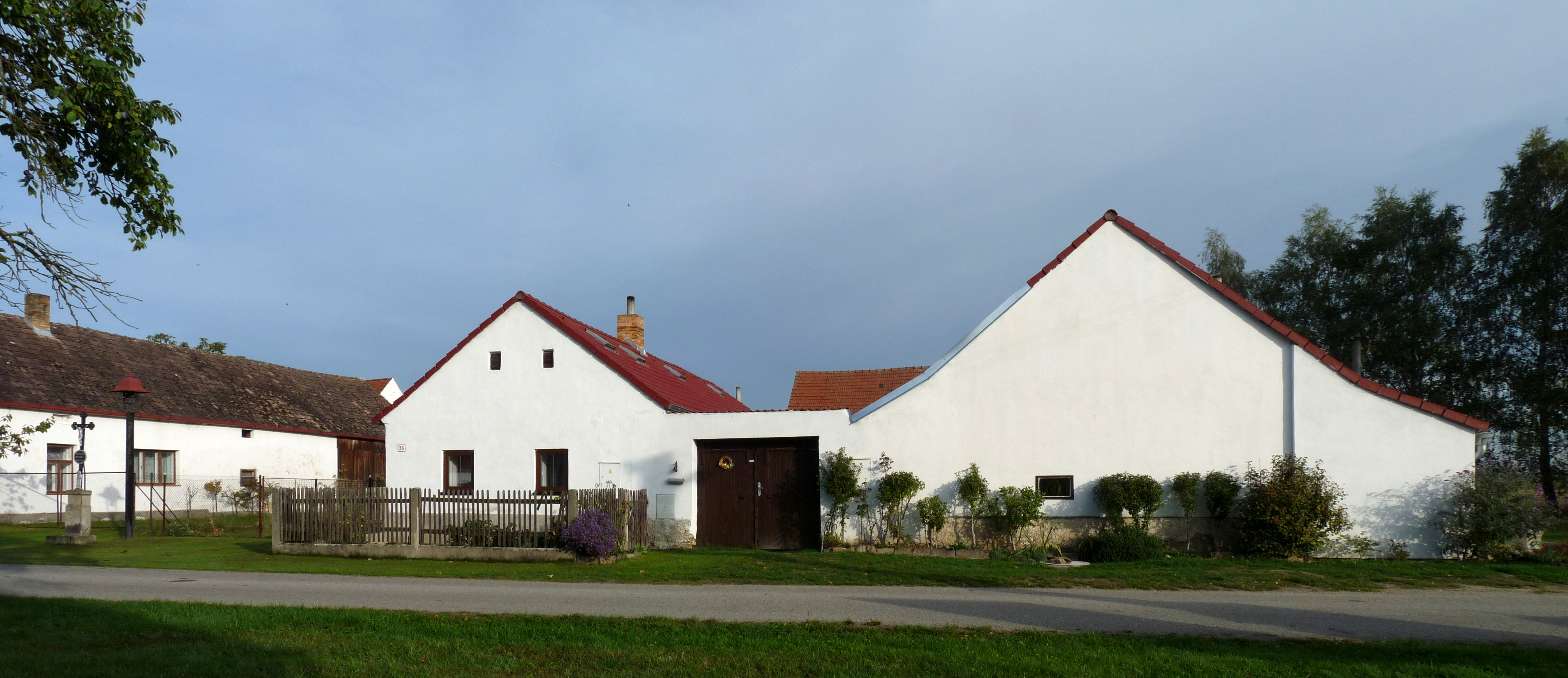 Houses No 36 and 16 in the village of Bor, Český Krumlov District, South Bohemian Region, Czech Republic.